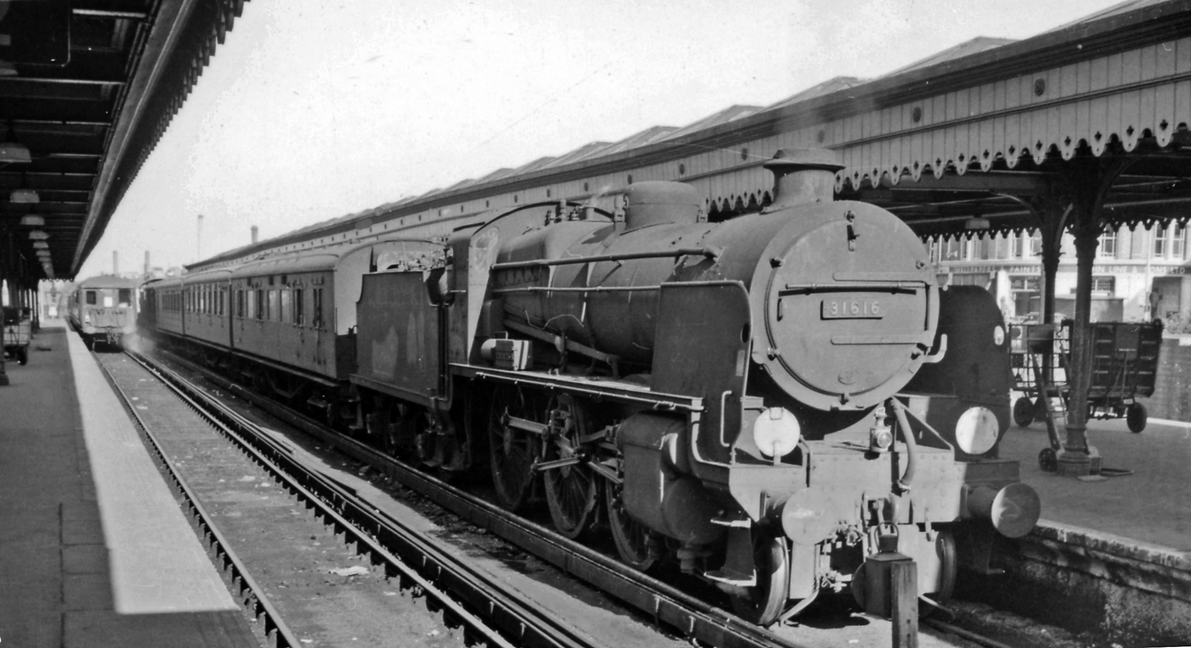 Reading Southern station, with steam train from Redhill. View eastward, towards Wokingham, then Staines and Waterloo by the electrfied ex-LSW line, and via Guildford and Redhill by the non-electrfied ex-SE&C line. The train from Redhill is headed by U class 2-6-0 No. 31616 (built 9/28, withdrawn 6/64). The SR lines were connected with the BR/WR (ex-GWR)lines (up on the left) by two loops to the east: this allowed much interchange of traffic and eventually the closure of this SR terminus (called 'Reading South' 26/9/49 - 11/9/61) and diversion of services into the ex-GW General Station from 6/9/65.